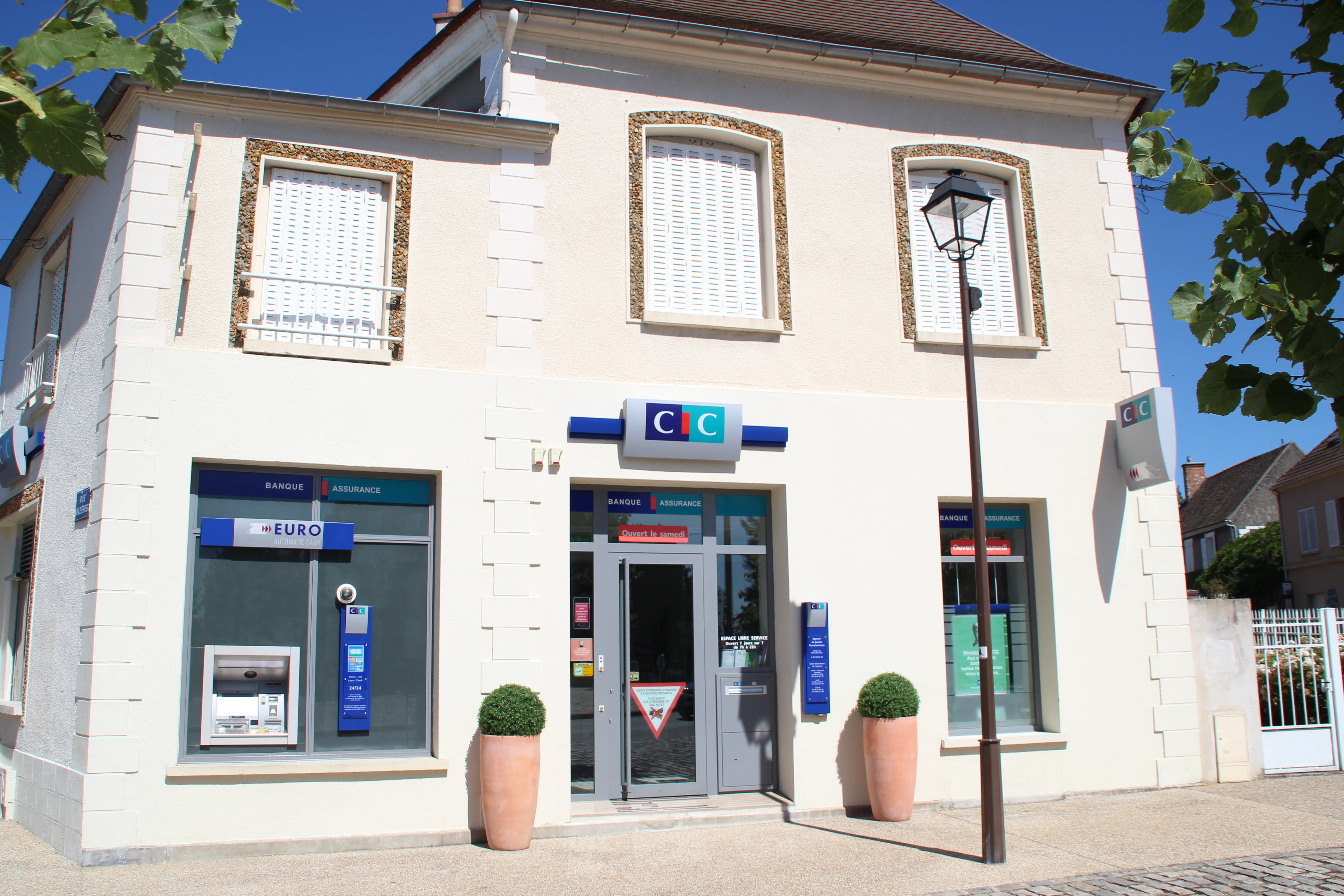 Maréchal-Foch place in Jouars-Pontchartrain, France